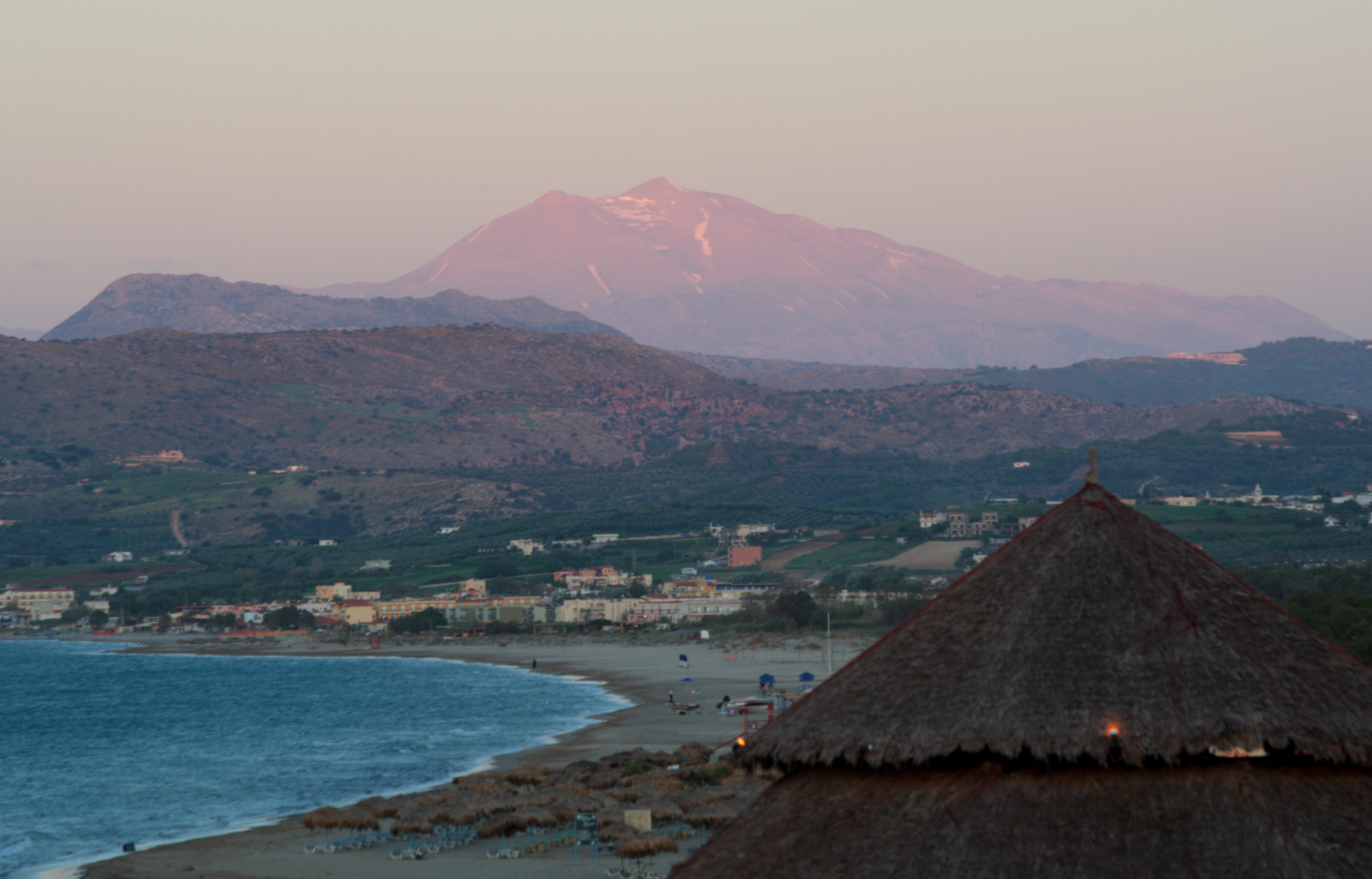 Georgioupoli – View of Psiloritis mountain, Crete